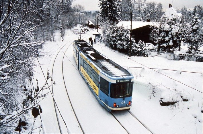 SL70 no. 128 tram at Ullern Station of the Lilleaker Line.